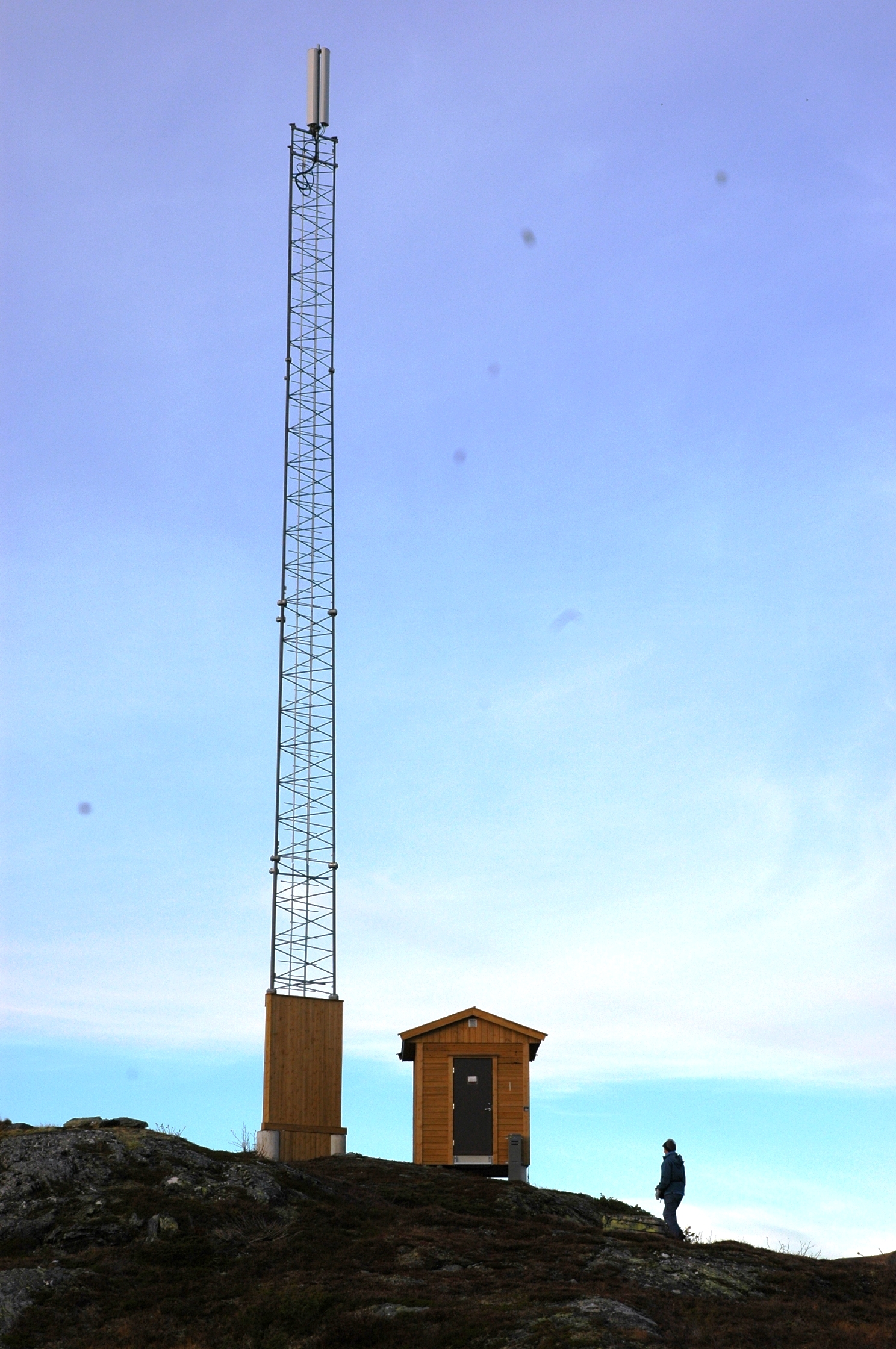 Mobile base station at Vikafjell, Vik i Sogn (Sogn og Fjordane, Norway)